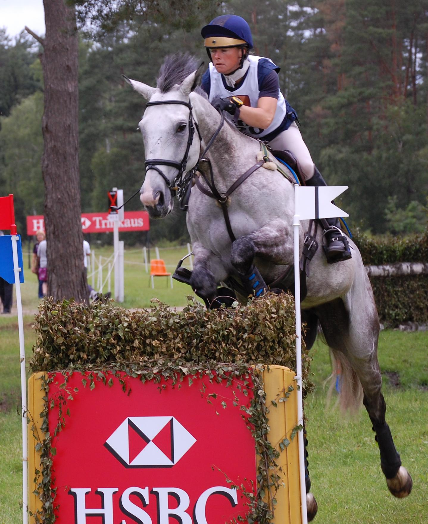 Swedish rider Sara Algotsson-Ostholt with Wega at the 2011 CCI 4*-event Luhmühlen.